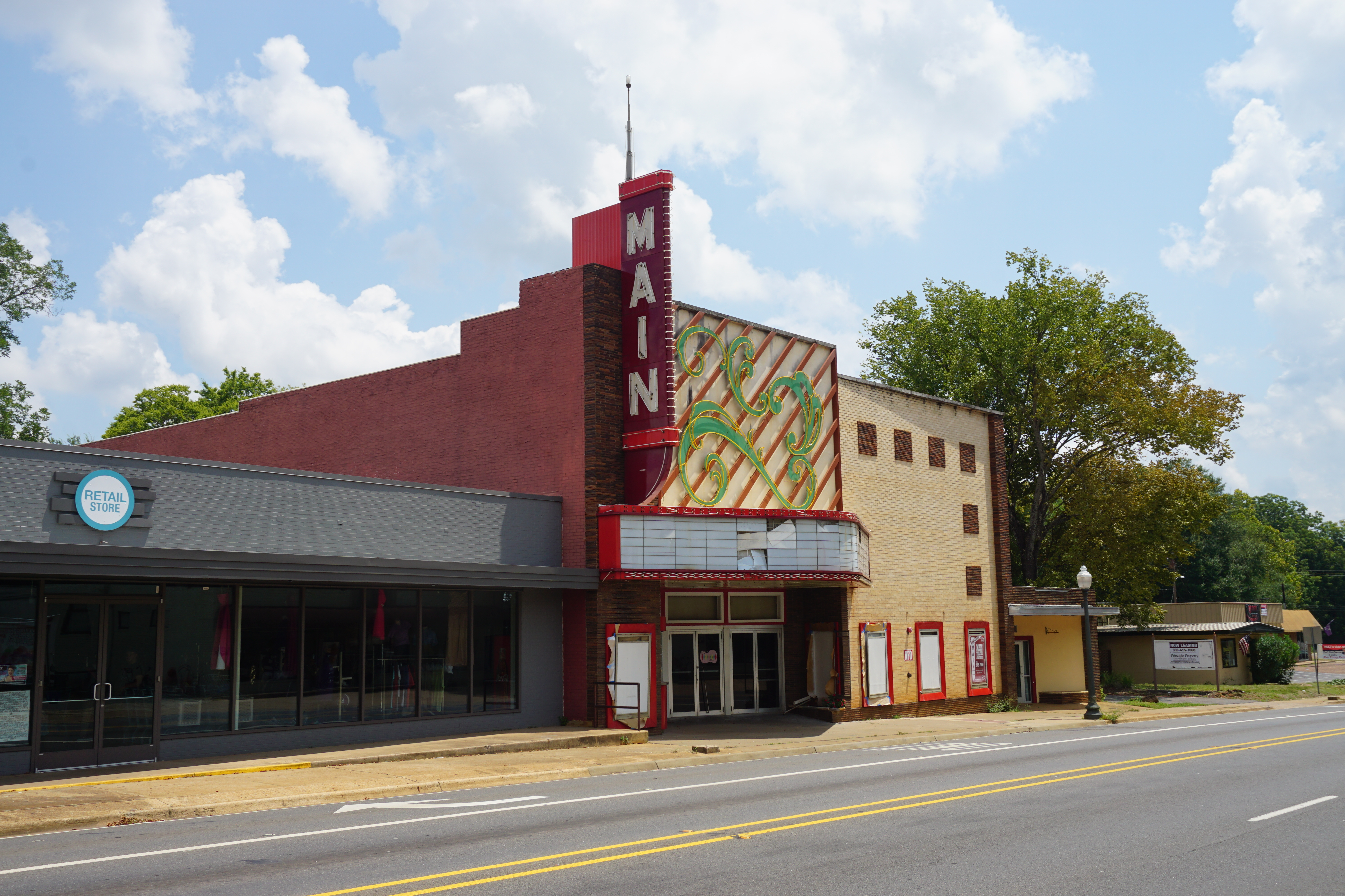 The Main Theater in Nacogdoches, Texas (United States).